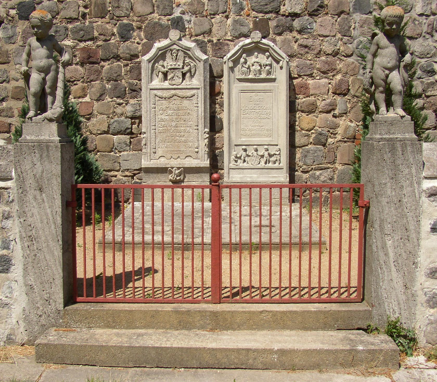 Graves of Marie and Ernst von Medelssohn-Bartholdy in Bernau-Börnicke in Brandenburg, Germany